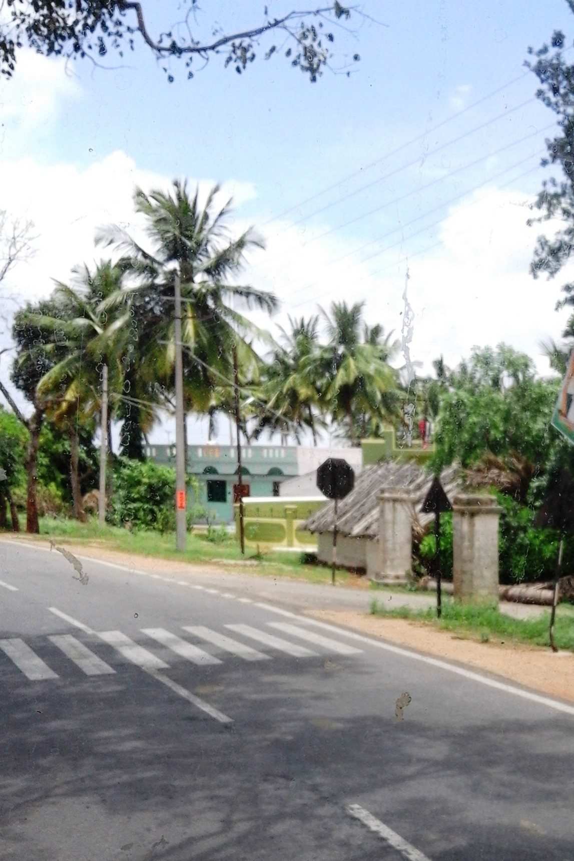 Nanjangud to T.Narasipura Road, Mysore district, Karnataka state, India.